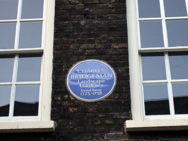 Charles Bridgeman lived here Charles Bridgeman, born 1690, lived at 54 Broadwick Street, Soho, from 1723 until his death in 1738. He was a royal gardener and one of the pioneers of landscaping, said to have introduced the ha-ha. From the Kew Gardens website: "Bridgeman was the last gardener to have sole responsibility for all of the Royal Gardens. He trained at London and Wise’s Brompton Park Nursery, Kensington, and in 1726 became Henry Wise’s partner in the role of joint Chief Gardeners to George I, responsible for Hampton Court, Kensington, Newmarket, Windsor and St James’ Palace. Richmond Gardens had a status apart, as they and the Lodge were granted to the Prince of Wales and Caroline by George I in 1722, and then by George II to his wife on his accession. Bridgeman had already worked for the Prince of Wales on his mistress’ garden at Marble Hill, as well as at Richmond. When George II succeeded in 1727 Wise retired, and Bridgeman was appointed sole Royal Gardener, managing Richmond under a separate contract. A significant part of Bridgeman’s work at Richmond was the landscaping of William Kent’s follies. However, he also created a canal and extended the riverside Terrace to Kew. It was under Bridgeman that the planting of trees, to soften the edges of the cultivated fields, began in earnest. He had a particular liking for elms, establishing a Great Elm Walk from Richmond Lodge to Love Lane. Bridgeman’s greatest achievement is said to have been the landscaping of Lord Cobham’s grounds at Stowe, again working in collaboration with Kent." For more